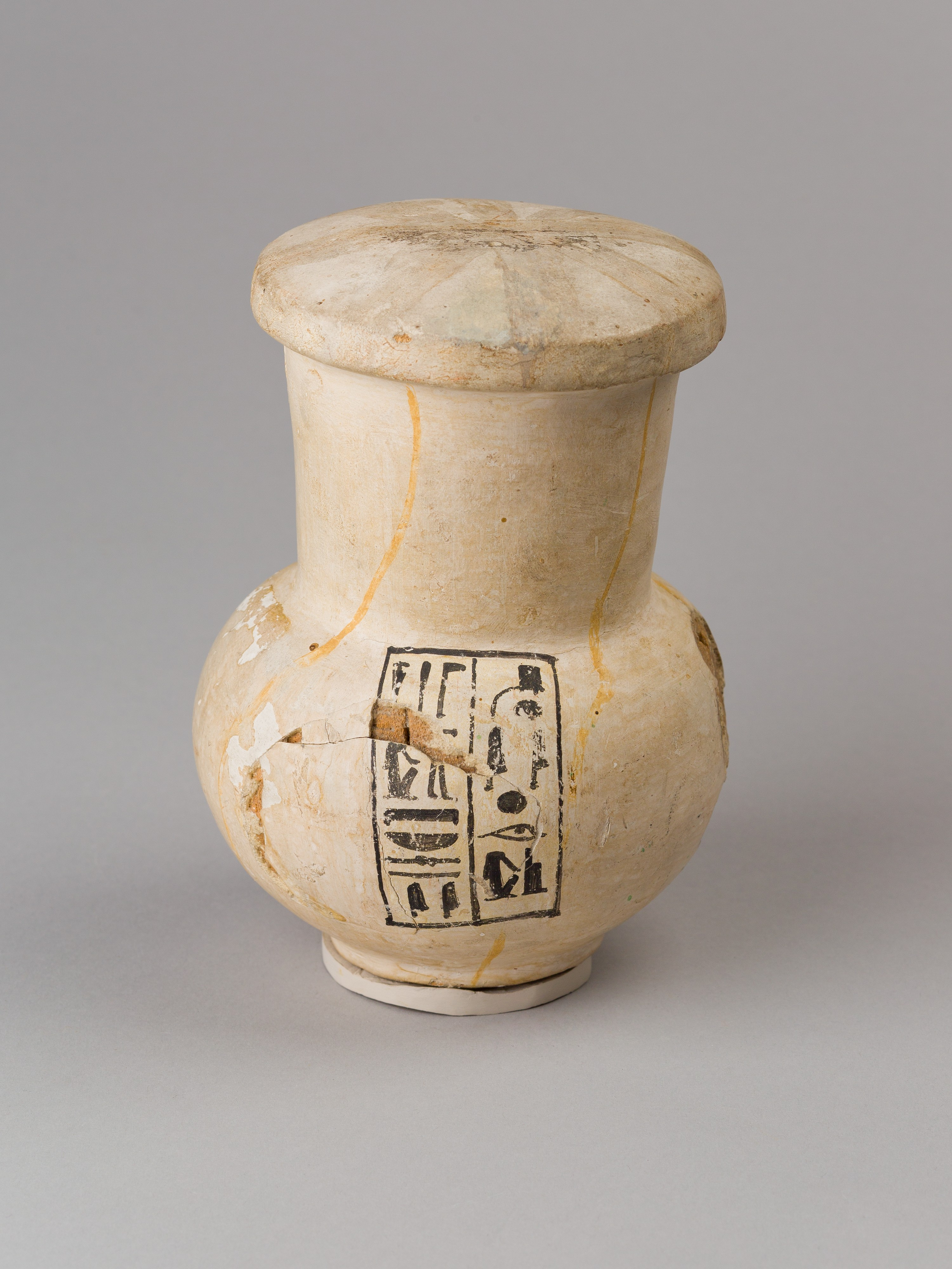 Model vase, Nebseny